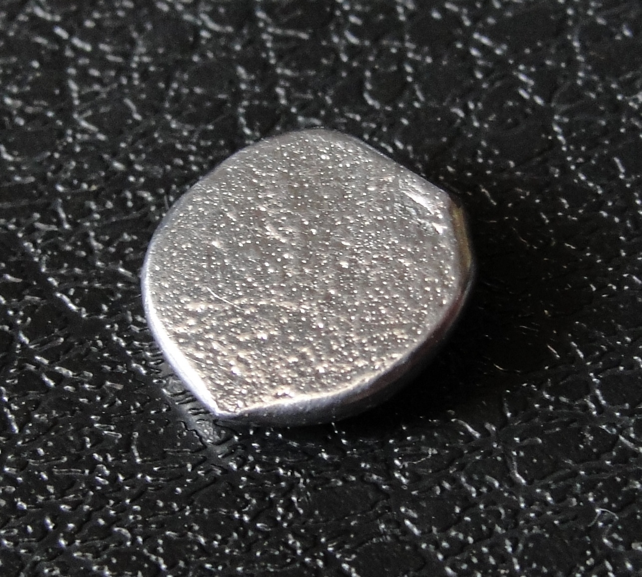 Under surface of a liquid lead drop just after solidification